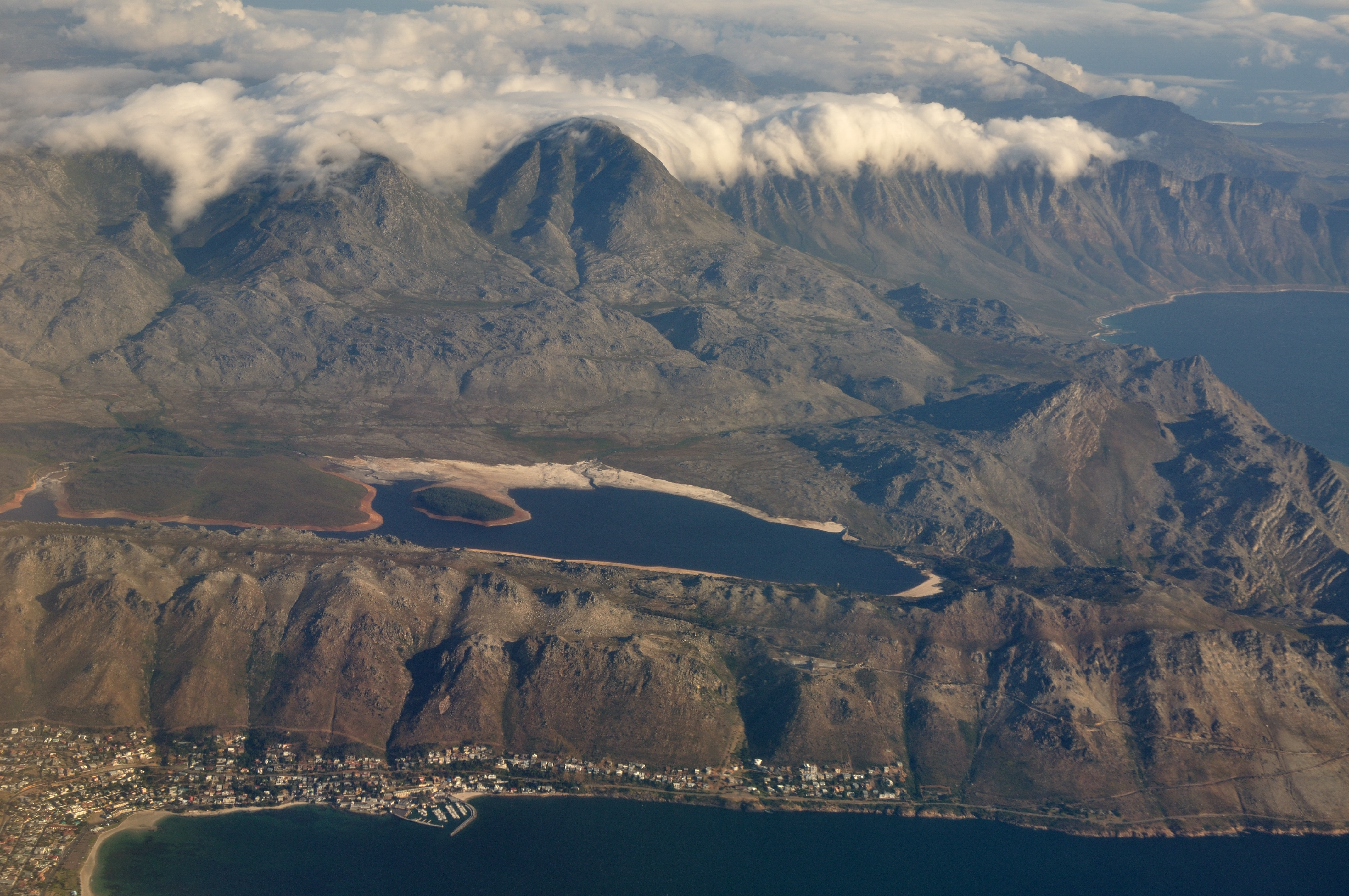 South Africa, some pictures while climbing out of Cape Town